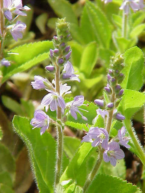 Species: Veronica officinalis Family: Scrophulariaceae Image No. 1